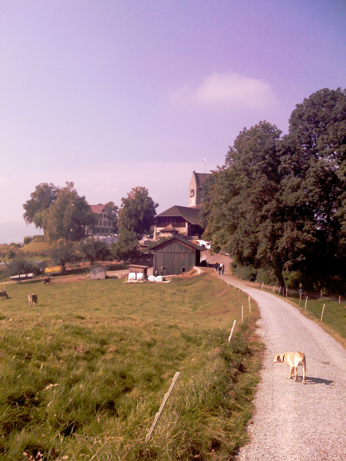 Castel Uster with fram seen fom south-east